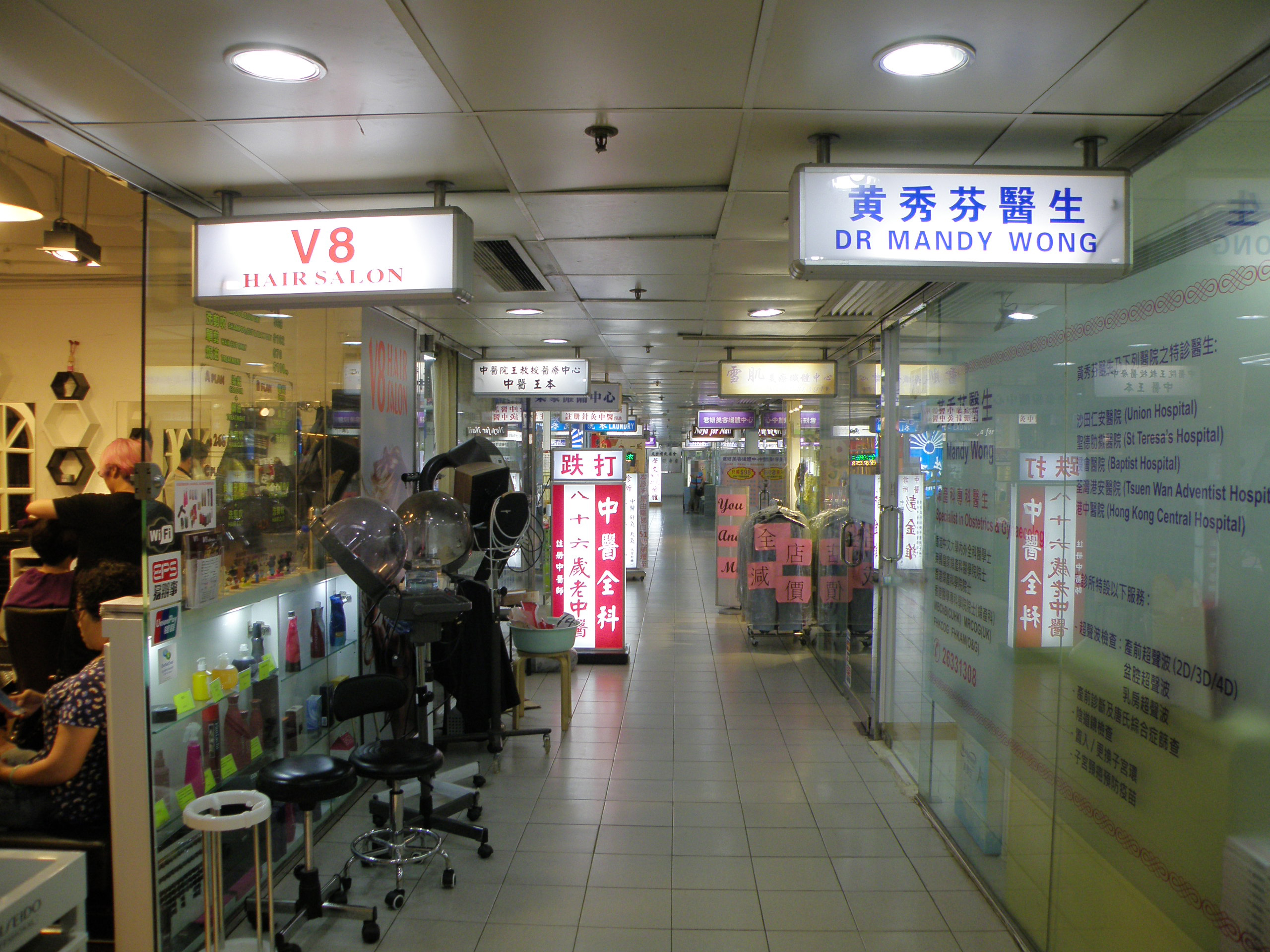 Fu Fai arcade in Ma On Shan, Hong Kong.